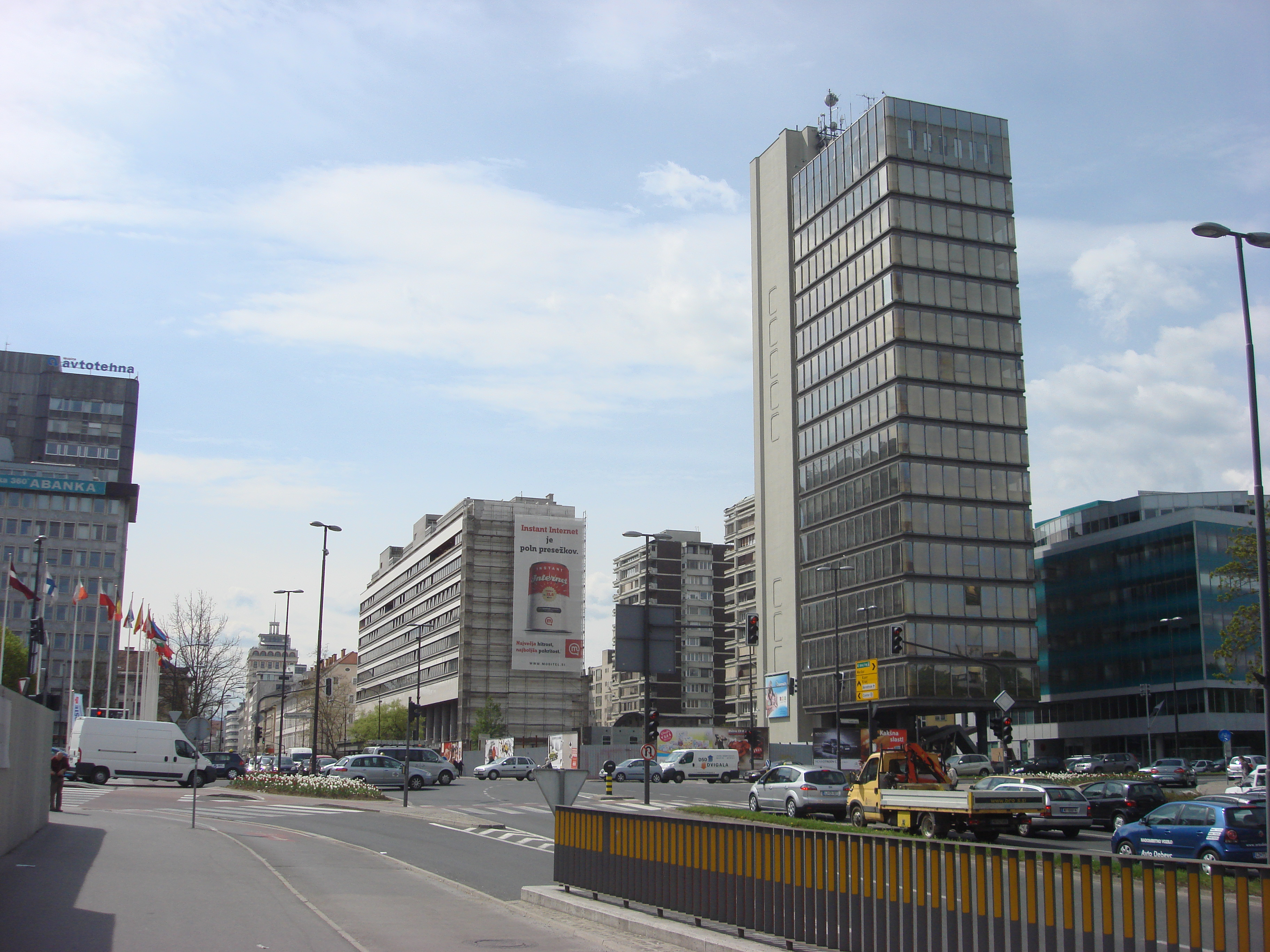 Ljubljana